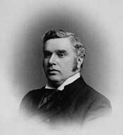 John Sparrow David Thompson